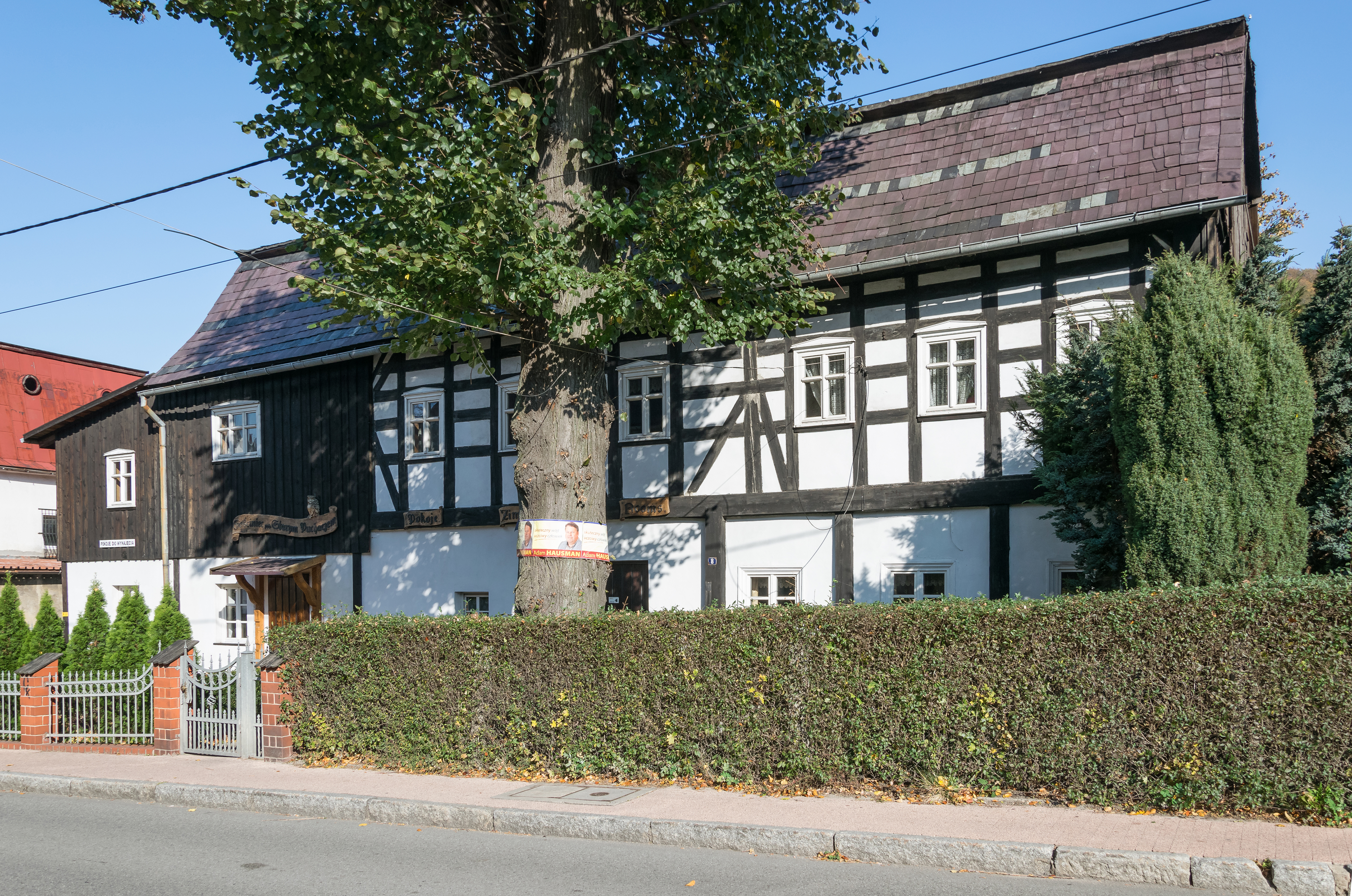 8 Wyszyńskiego Street in Walim Wikidata has entry Q30083192 with data related to this item.